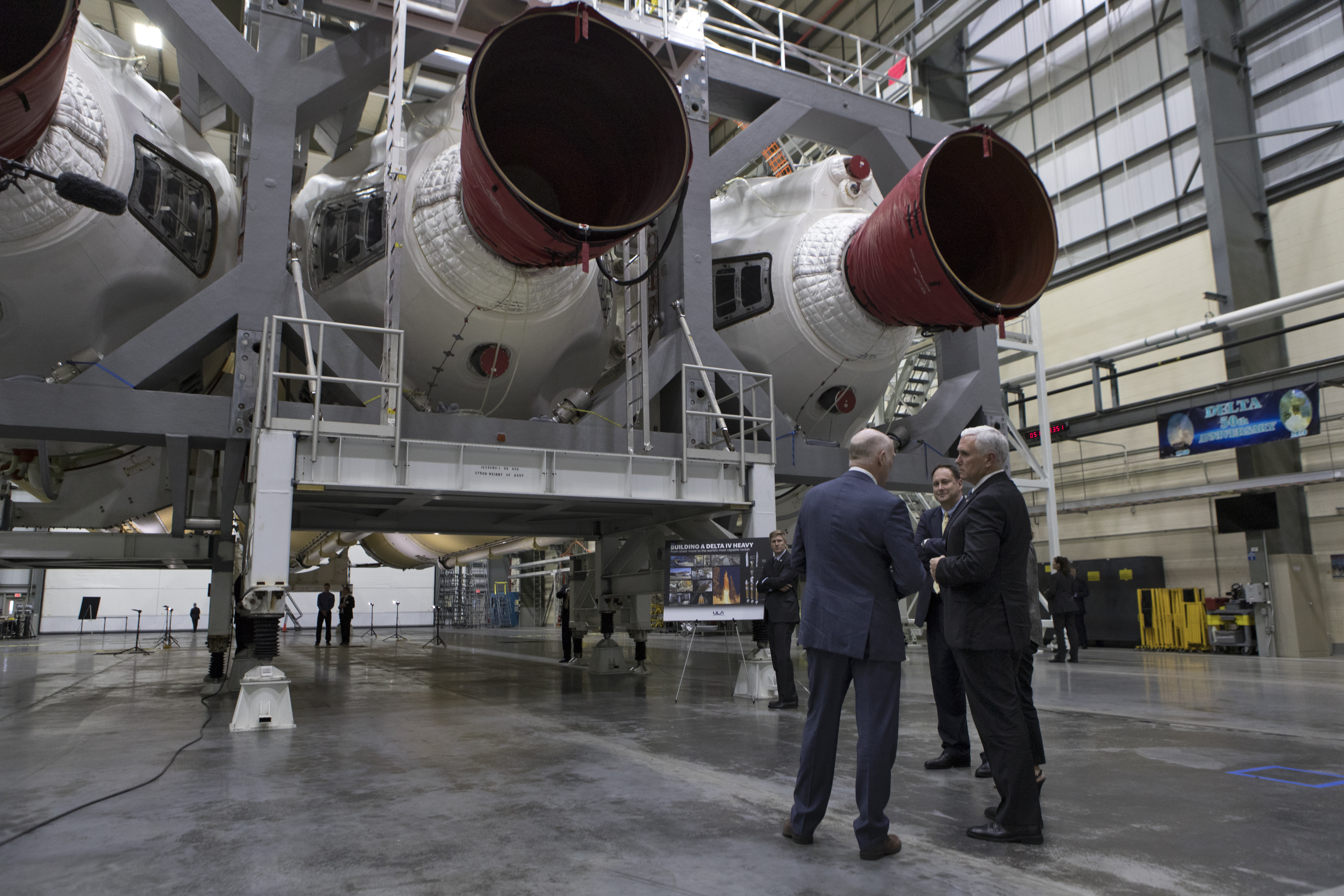 United Launch Alliance (ULA) president and CEO Tory Bruno, left leads a tour for Vice President Mike Pence on Feb. 20, 2018. Behind them is Acting NASA Administrator Robert Lightfoot. They are in the ULA Horizontal Integration Facility (HIF), at Cape Canaveral Air Force Station in Florida. The HIF is where the Delta IV Heavy boosters are being processed for NASA’s upcoming Parker Solar Probe mission. During his visit, Pence will chair a meeting of the National Space Council on Feb. 21, 2018 in the high bay of NASA Kennedy Space Center’s Space Station Processing Facility. The council's role is to advise the president regarding national space policy and strategy, and review the nation's long-range goals for space activities. Photo credit: NASA/Kim Shiflet NASA image use policy.